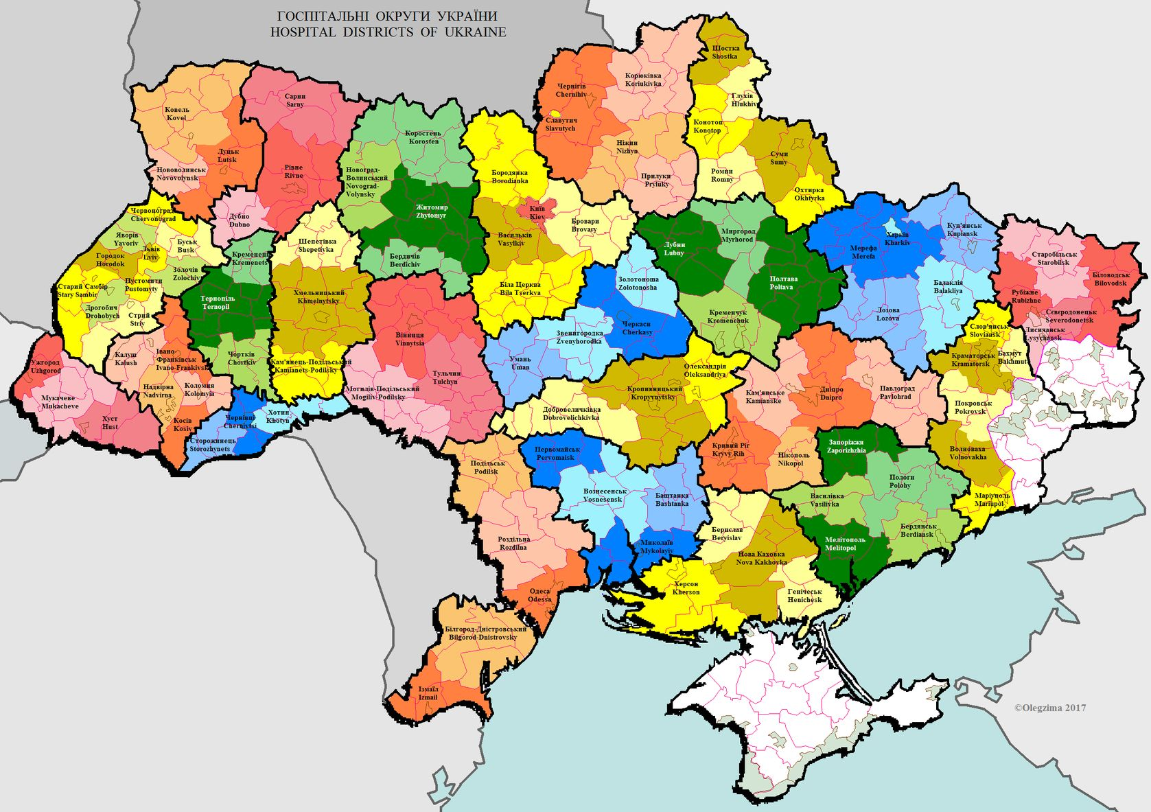 Hospital districts of Ukraine